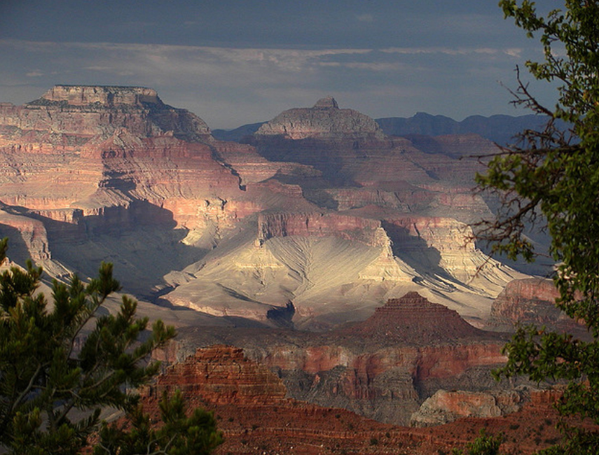 Canyon View from the North Rim